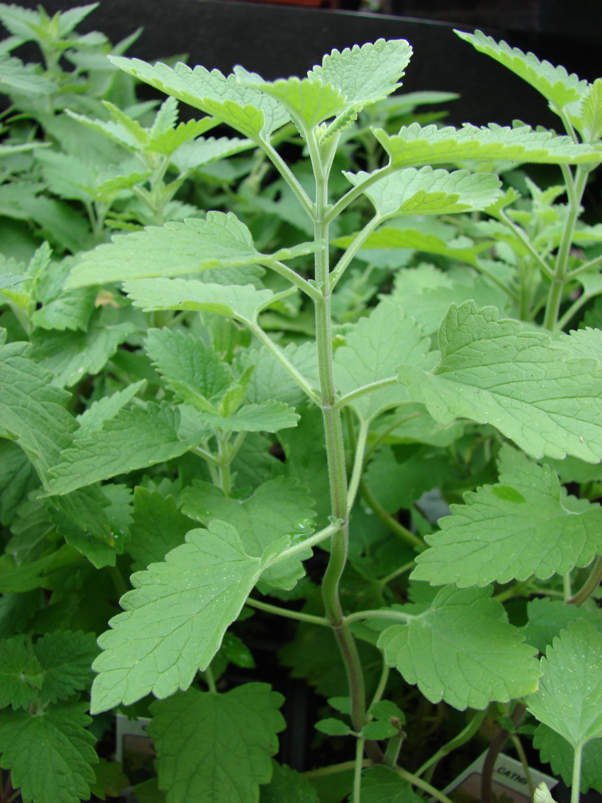 Nepeta cataria (leaves). Location: Maui, Kula Ace Hardware and Nursery